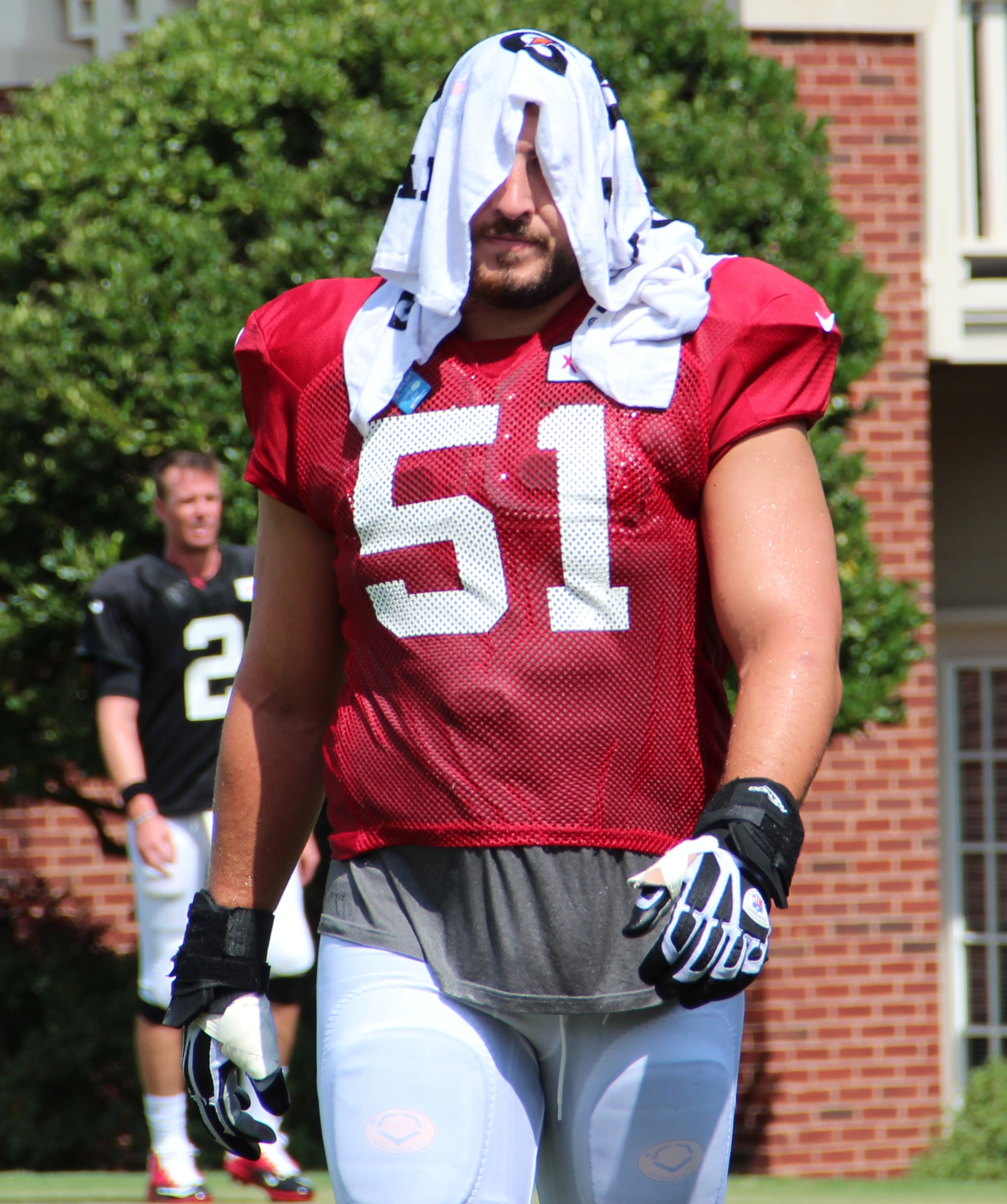 At Atlanta Falcons training camp, 2016